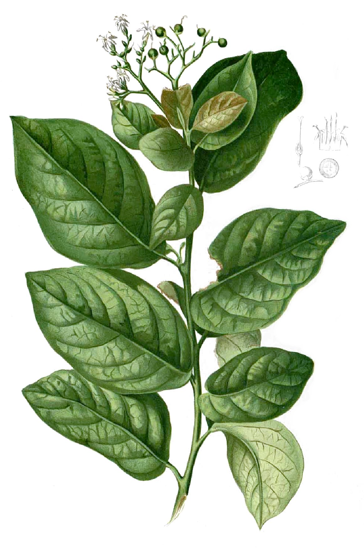 Plate from book